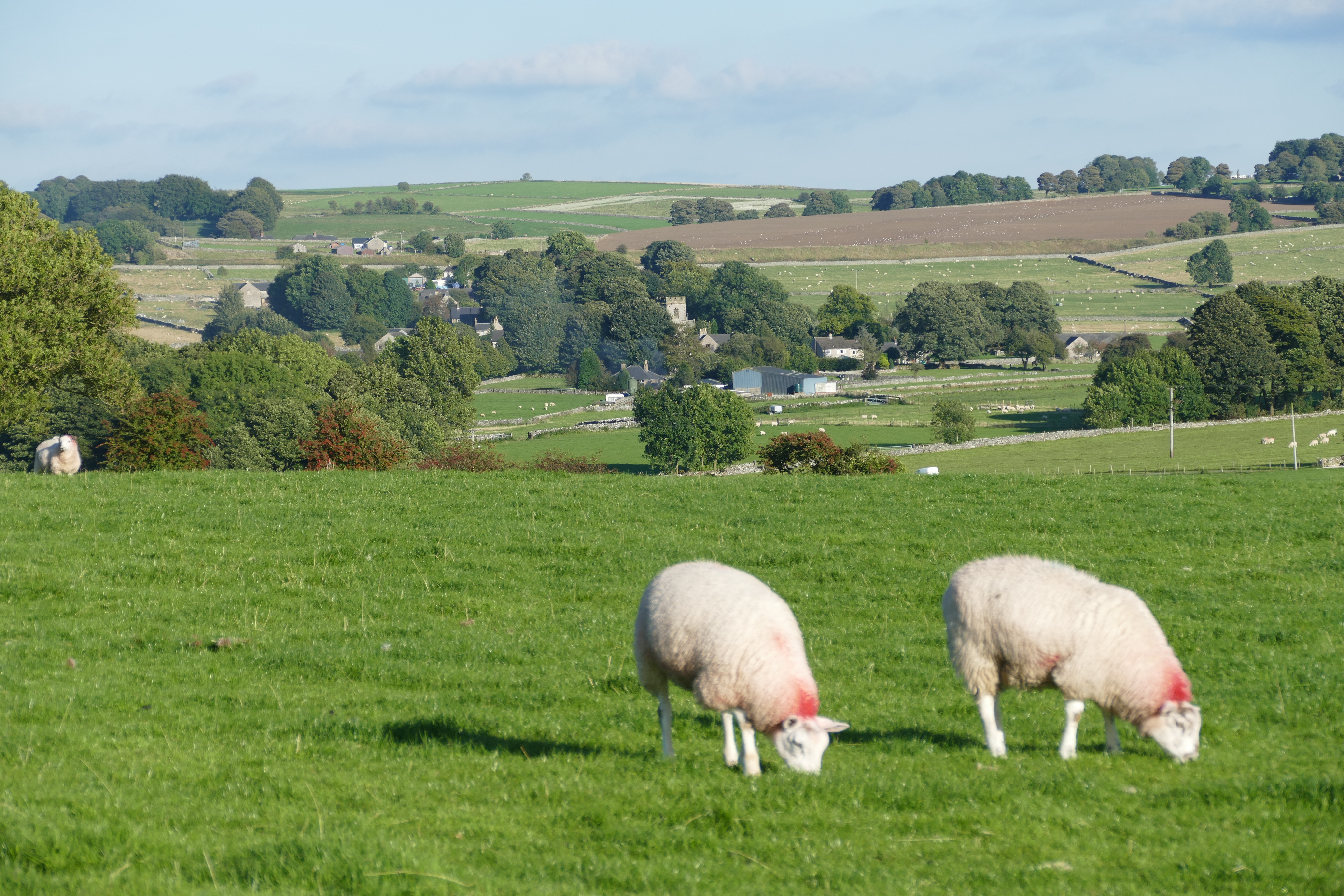 Biggin from Highfield Lane